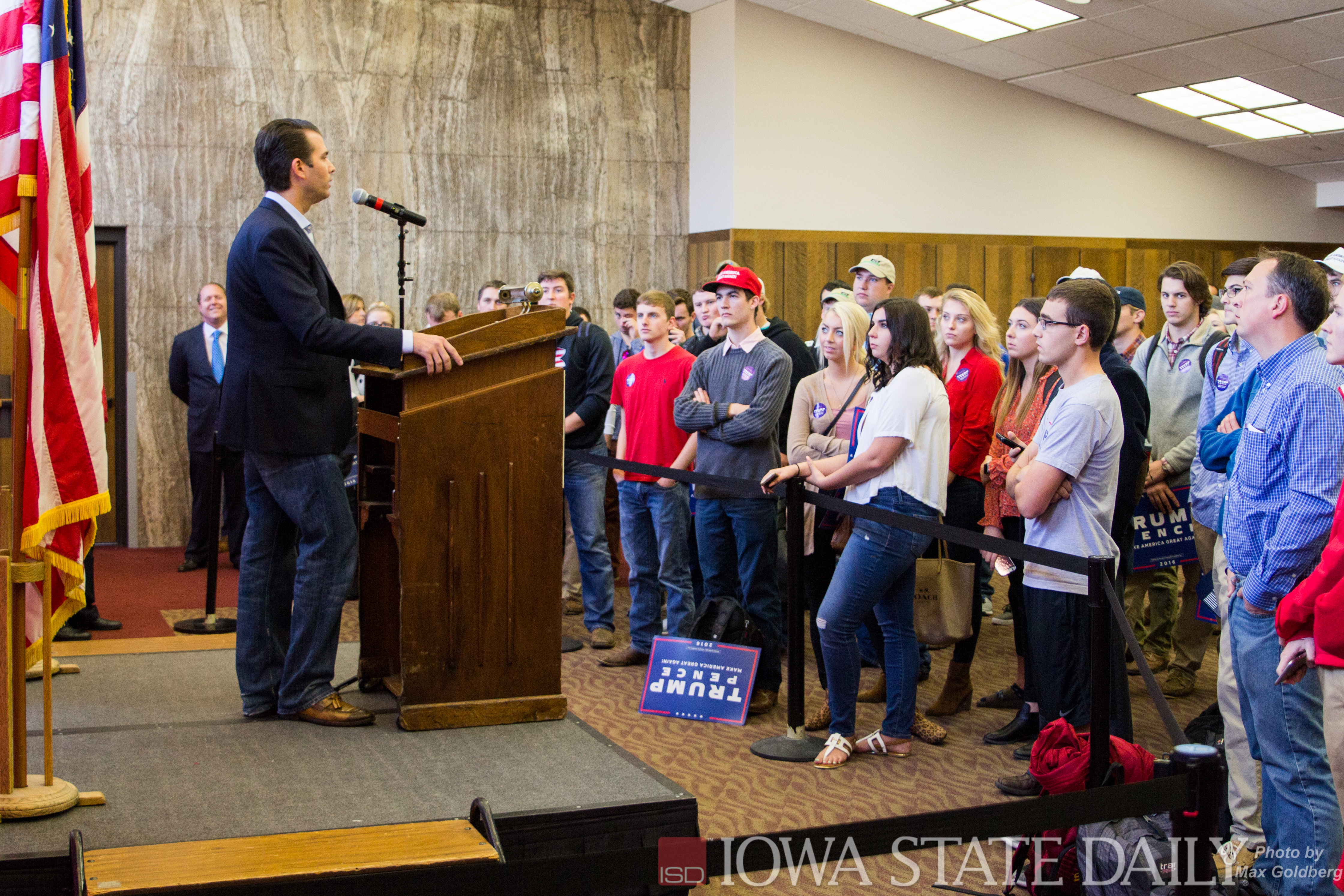 With only one week until Election Day, son of Republican presidential nominee Donald Trump, Donald Trump Jr., made a stop at Iowa State to talk about his father's plans to fix the economy, healthcare and the corruption in politics.